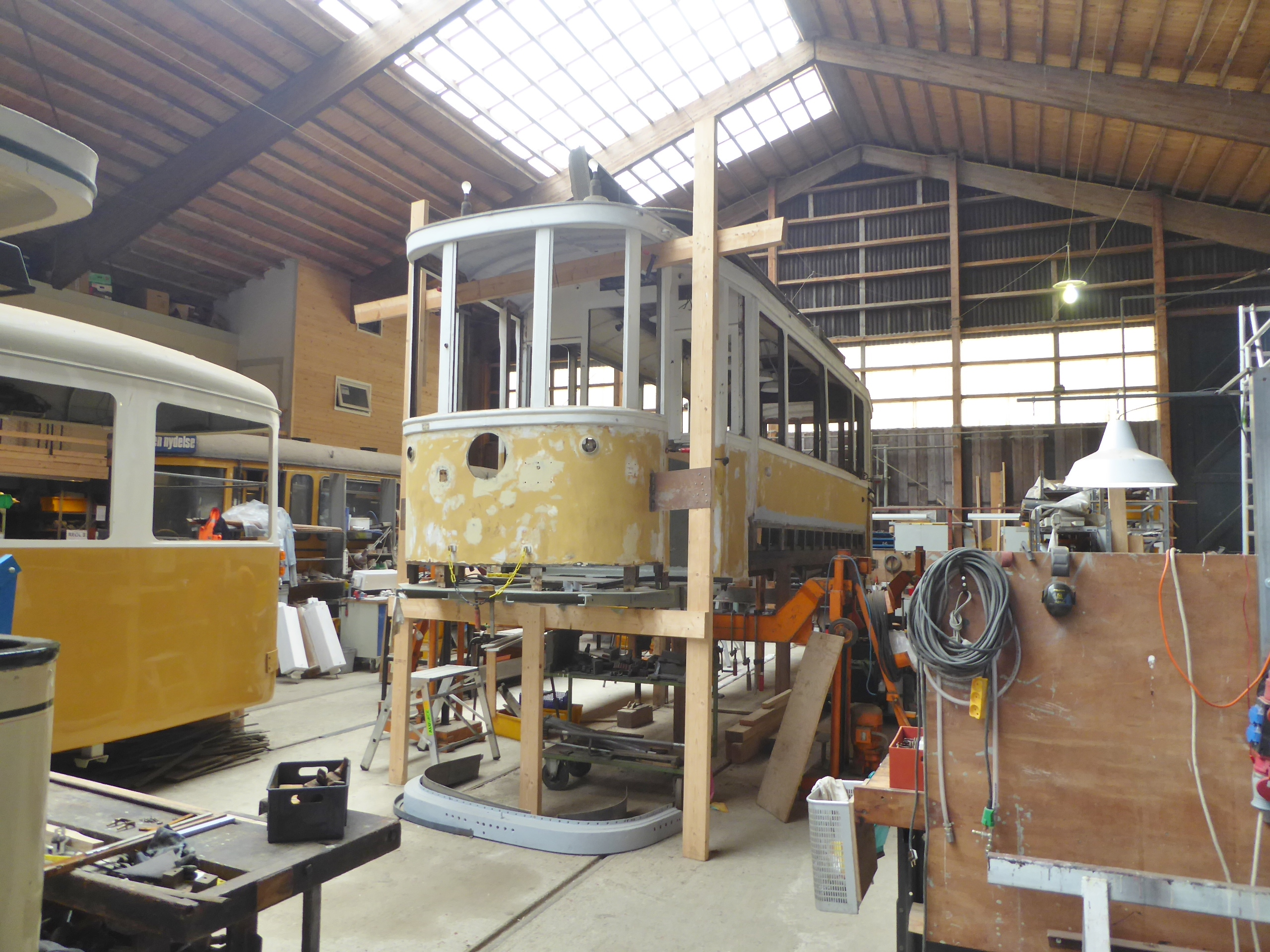 Restoration of an old tram of Copenhagen, KS 361 from 1915, in the workshop at Sporvejsmuseet Skjoldenæsholm in Denmark.